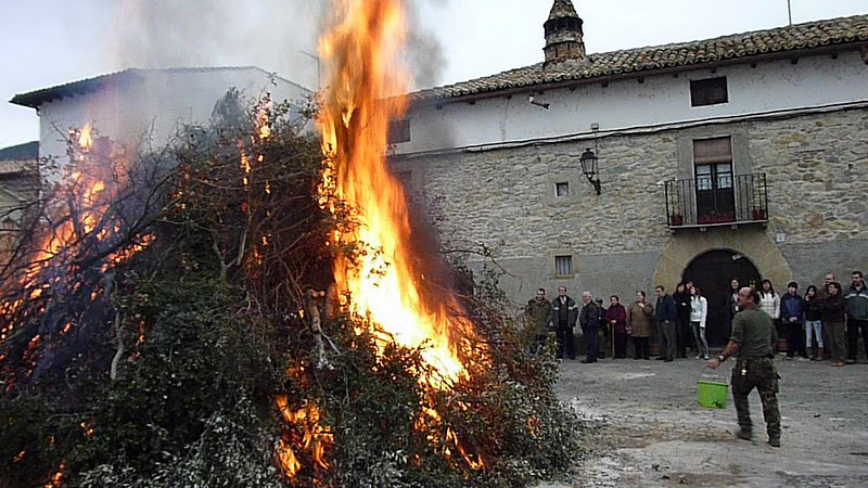 Bonfire of san Babil in Sigüés (Jacetania).